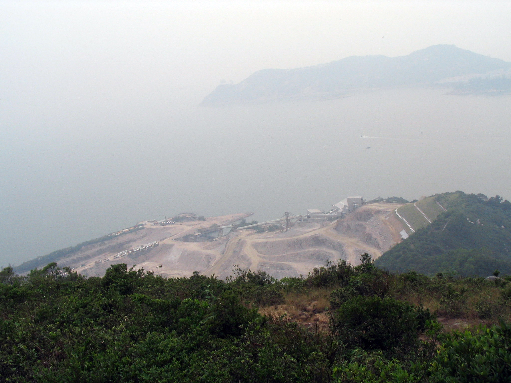 Photo of Shek O Quarry